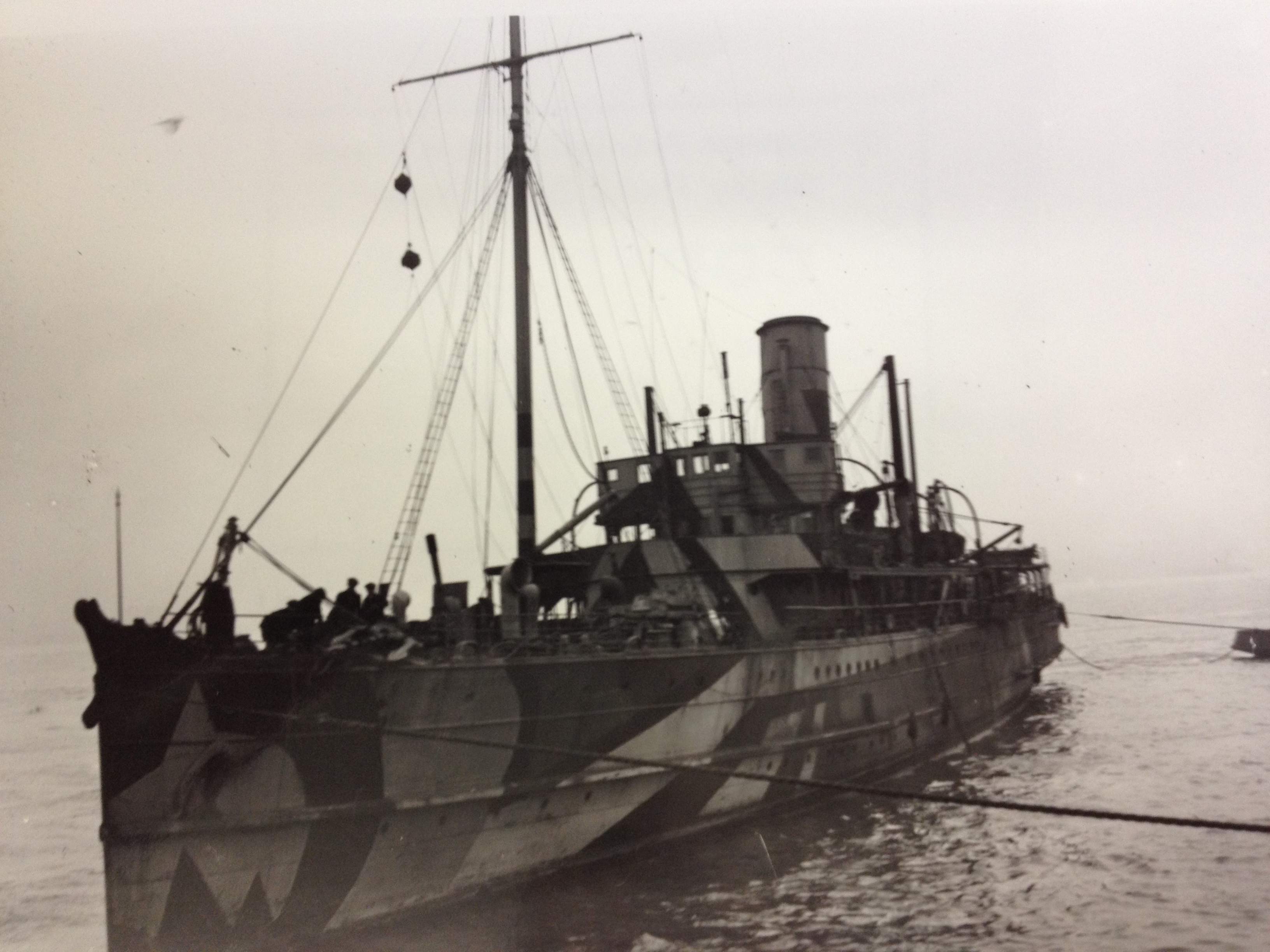 SS Peel Castle pictured in her wartime role as an Armoured Boarding Vessel.